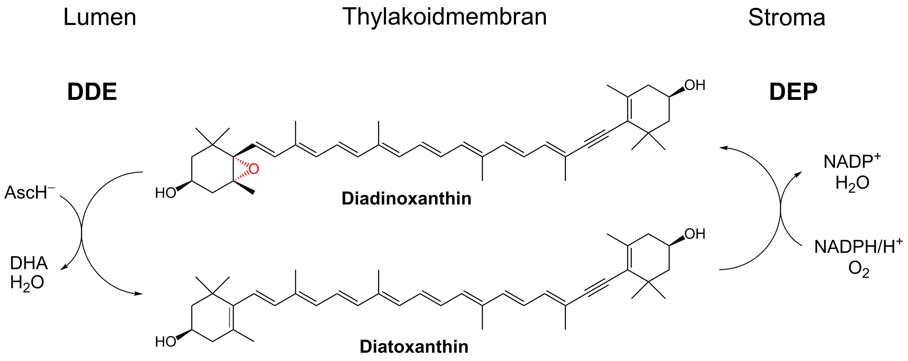 Diadinoxanthin cycle; compare also the violaxanthin cycle